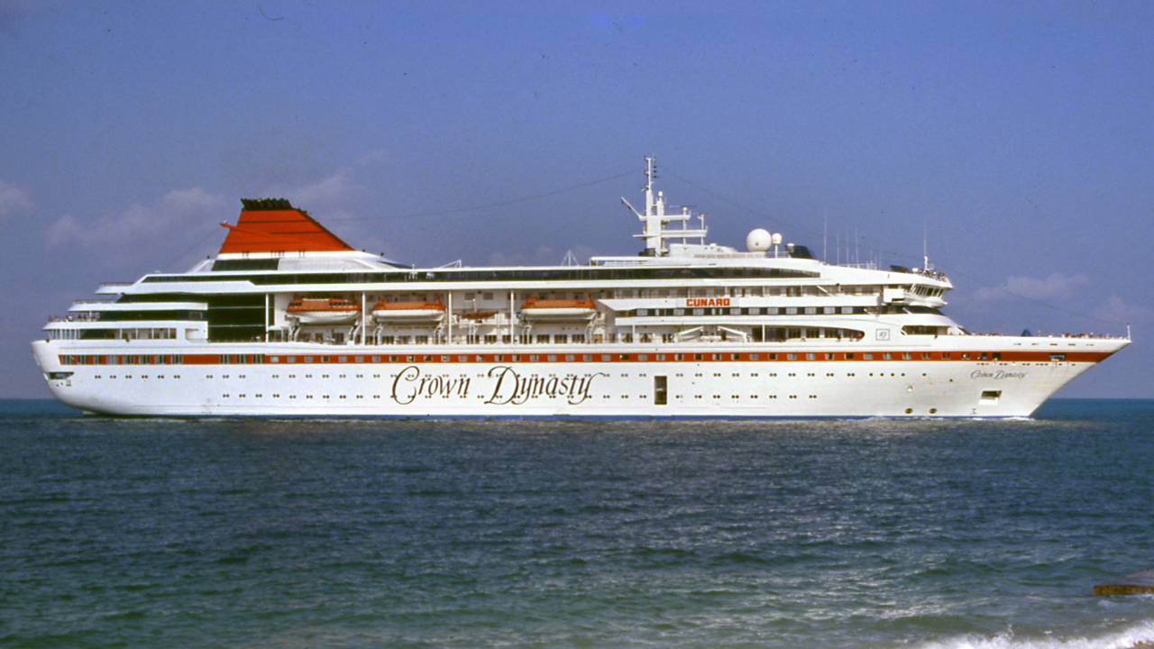 The cruise ship Crown Dynasty in Key West.